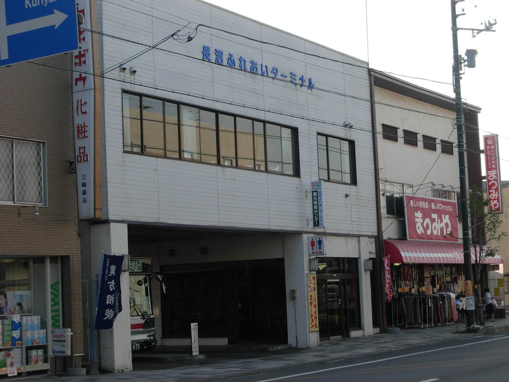 Naganuma Fureai Terminal (Naganuma Town, Hokkaido, Japan)